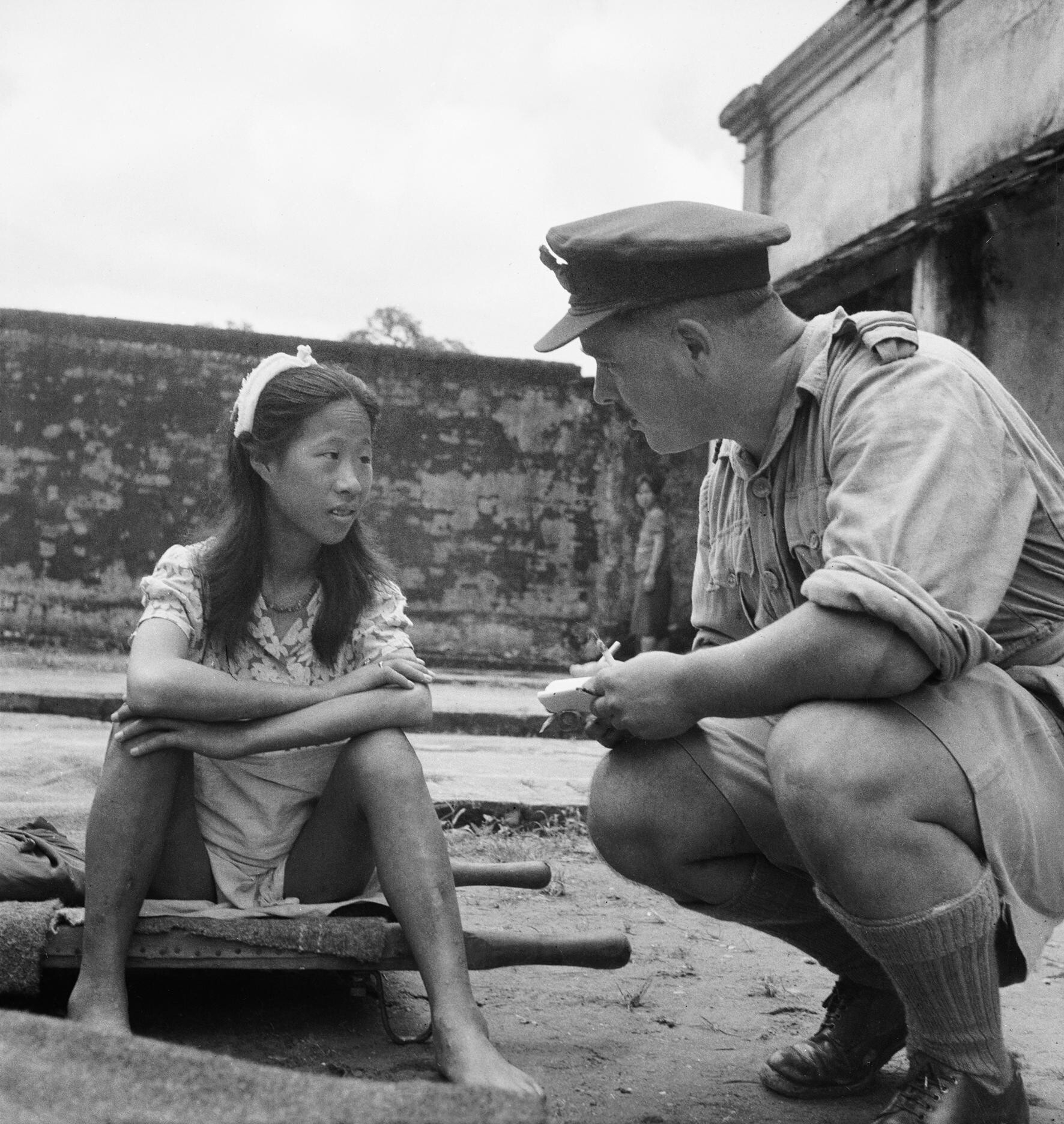 A Chinese girl from one of the Japanese Army's 'comfort battalions' sits on a stretcher, awaiting interrogation at a camp in Rangoon. The uniform and insignia on the shoulder of the man next to her indicate that he is a Flying Officer in the Royal Air Force.